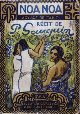 Book cover of Noa Noa by Paul Gauguin, illustrated by Daniel de Monfreid, edition of 1929 Éditions Crès, Paris.